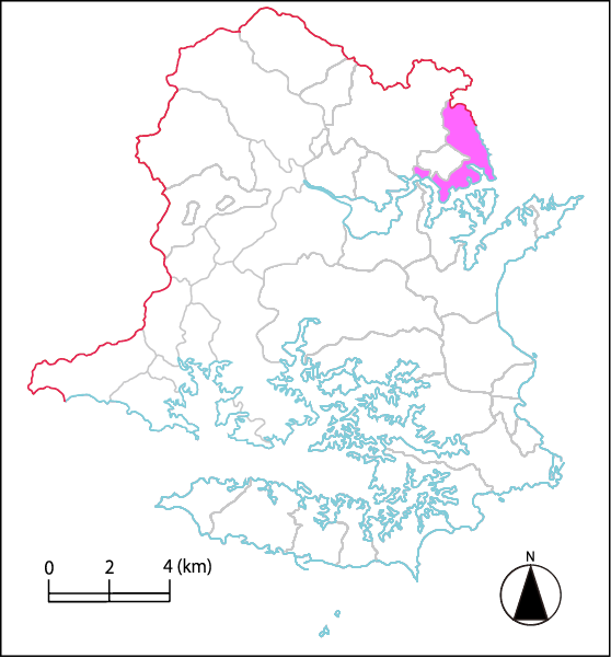 This is the map of Isobecho-Matoya, Shima, Mie, Japan.